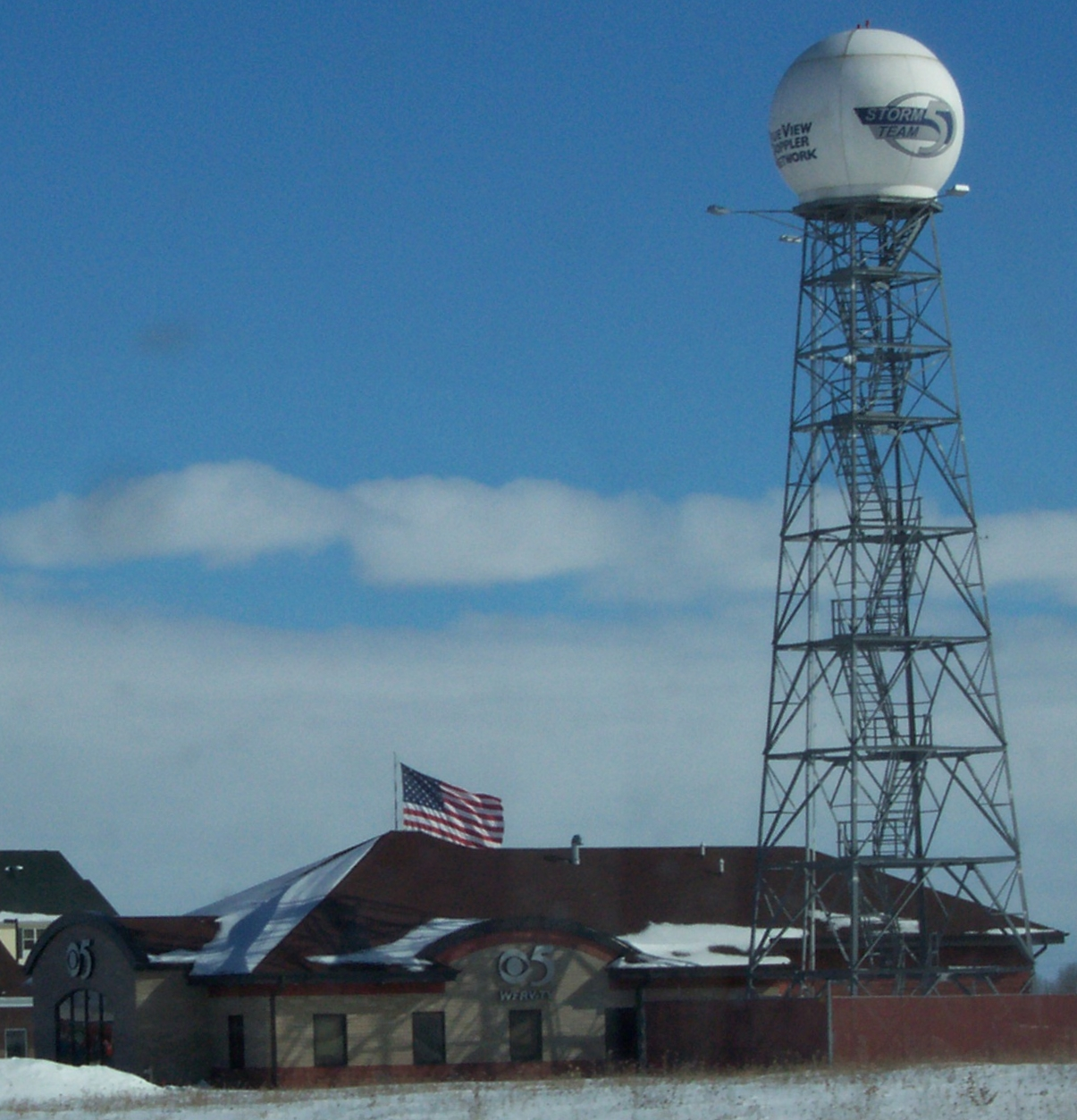 The satellites and towers for WFRV-TV Fox Cities studios near Appleton, Wisconsin, USA.